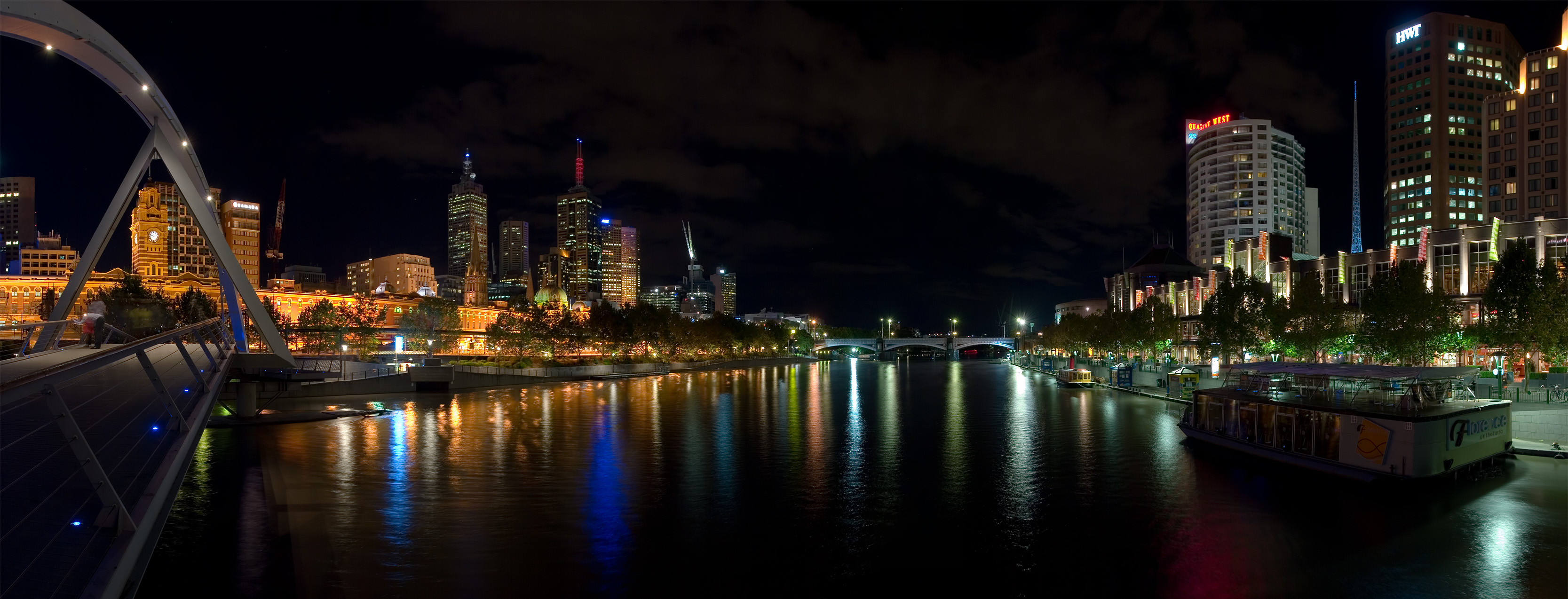 View of the Yarra River as it flows through Central Melbourne at night, with the central business district on the left and Southbank on the right. A five segment panorama taken with a Canon 10D and 17-40mm f/4L lens.